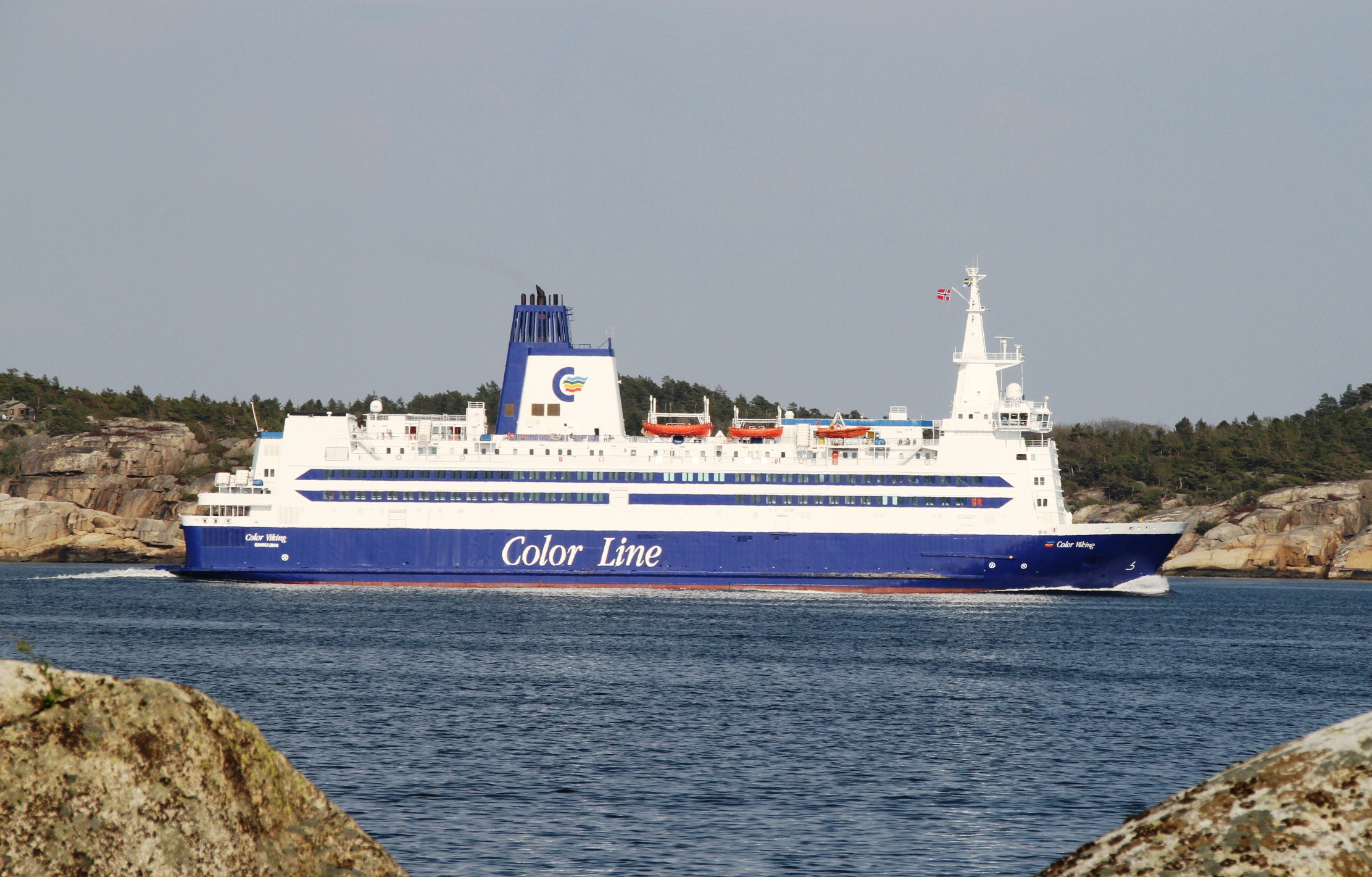 MS Color Viking, a ro-ro ferry registered in Sandefjord (Norway) by Color Line. Trafficking the route Sandefjord-Strömstad. Here in the Sandefjord Fjord.